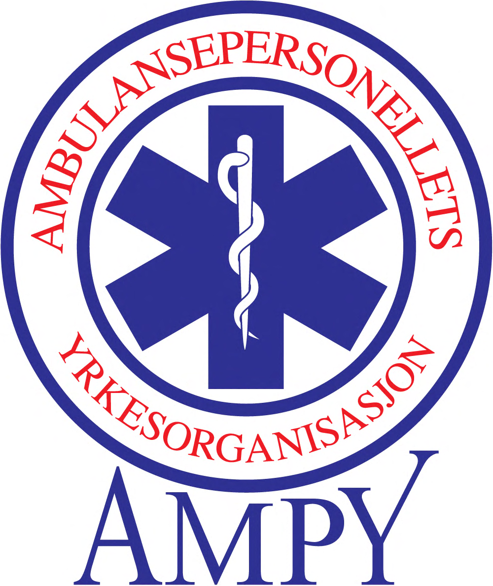 Delta